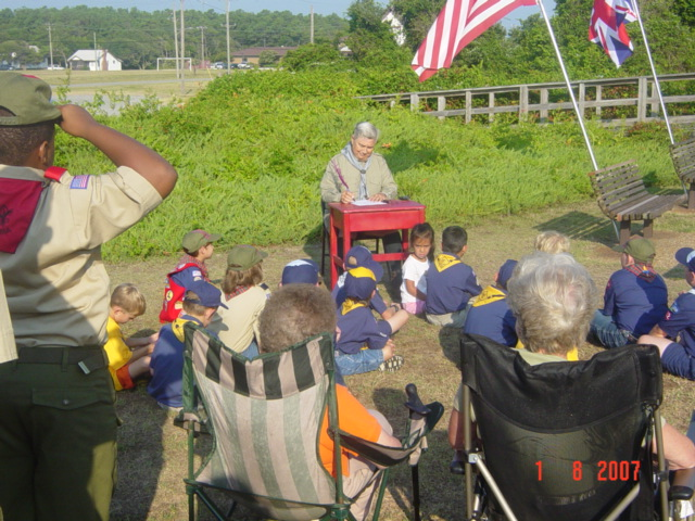 Scouting 2007 Centenary celebration, Aug 1, 2007, Cape Henry Memorial, Fort Story, Virginia Beach, VA